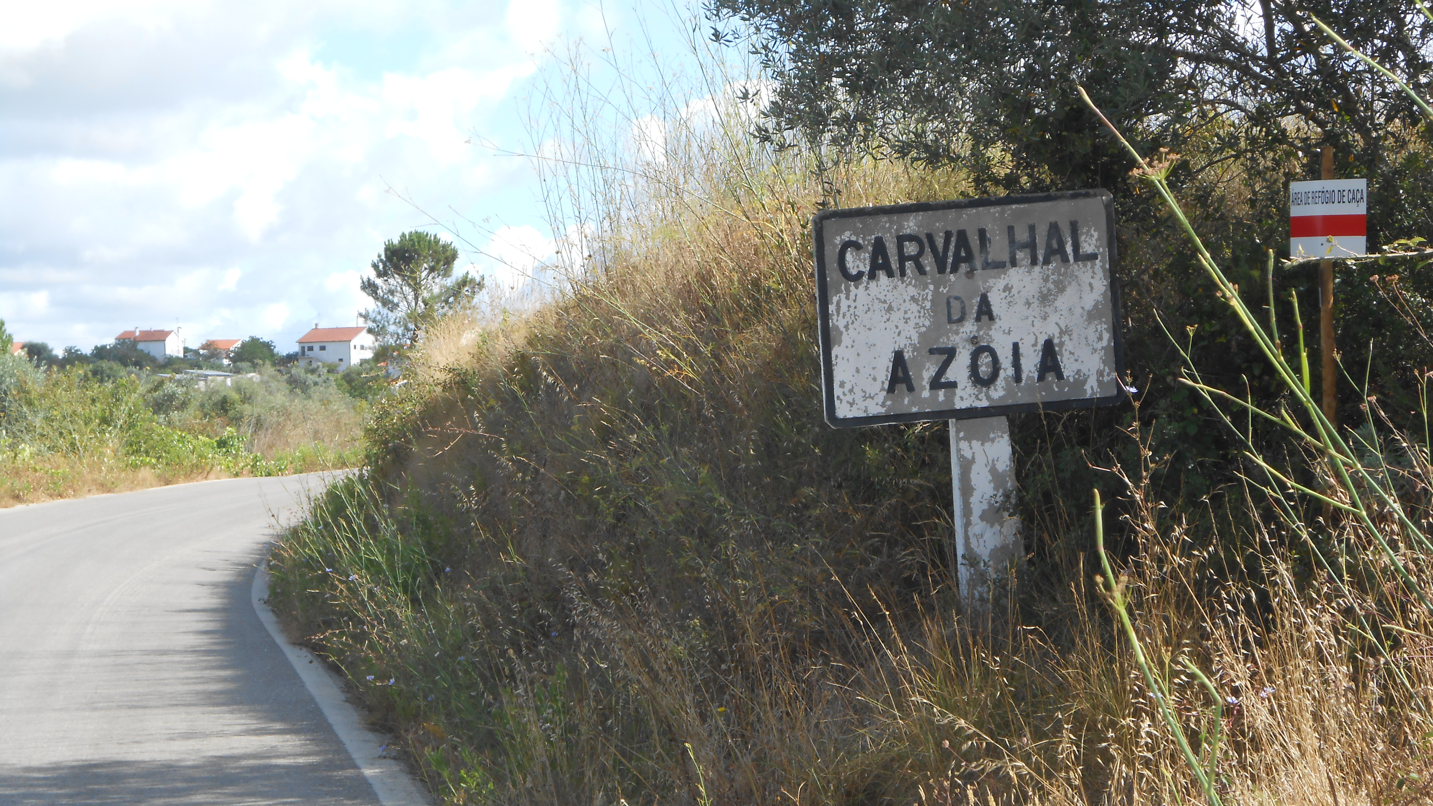 Entry sign of Carvalhal de Azoia, parish (freguesia) Samuel, municipality (concelho) of Soure, Portugal (entering from direction Samuel/Coles)